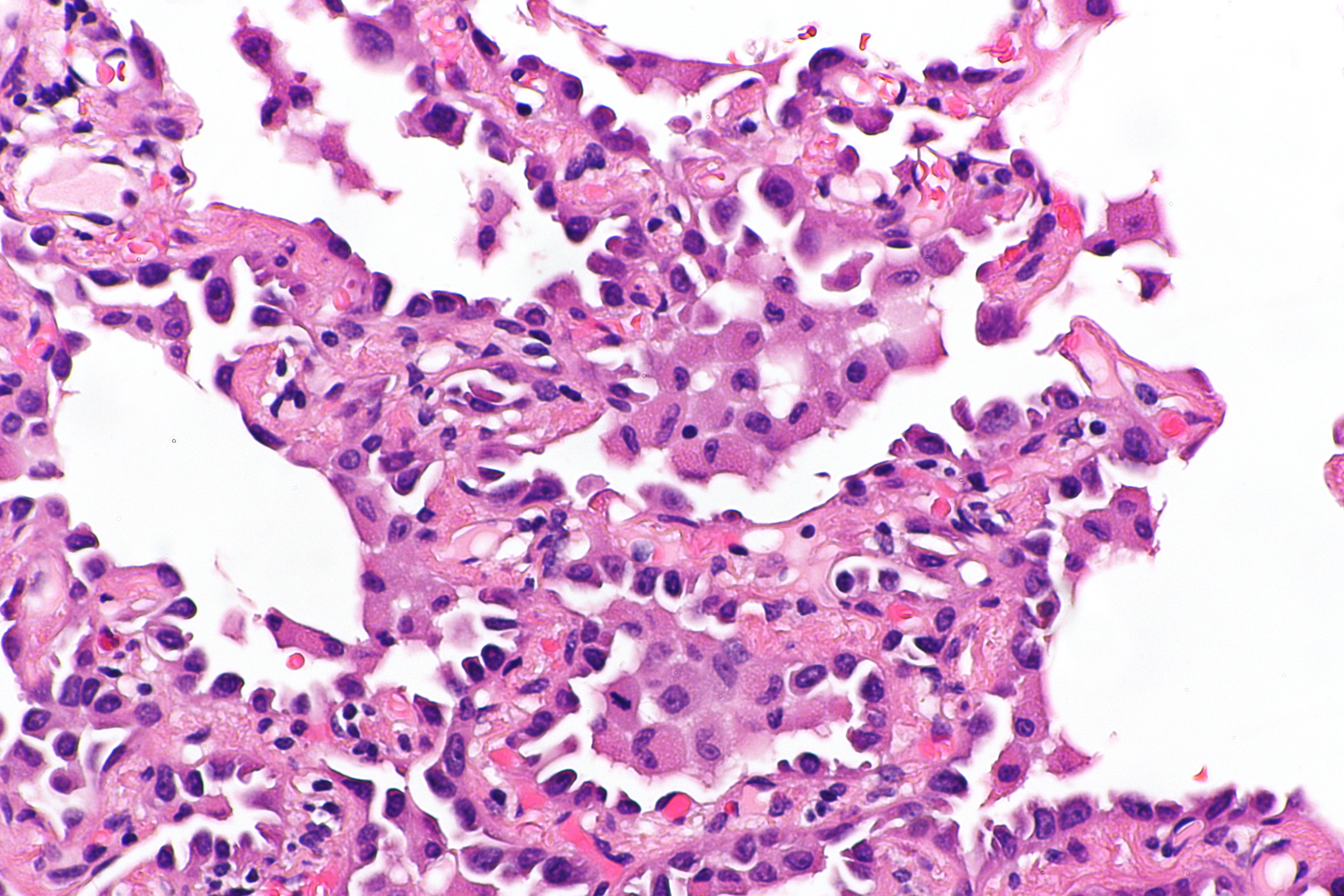 Micrograph showing multifocal micronodular pneumocyte hyperplasia associated with tuberous sclerosis. H&E stain. Related images MMPH - intermed. mag. MMPH - high mag.